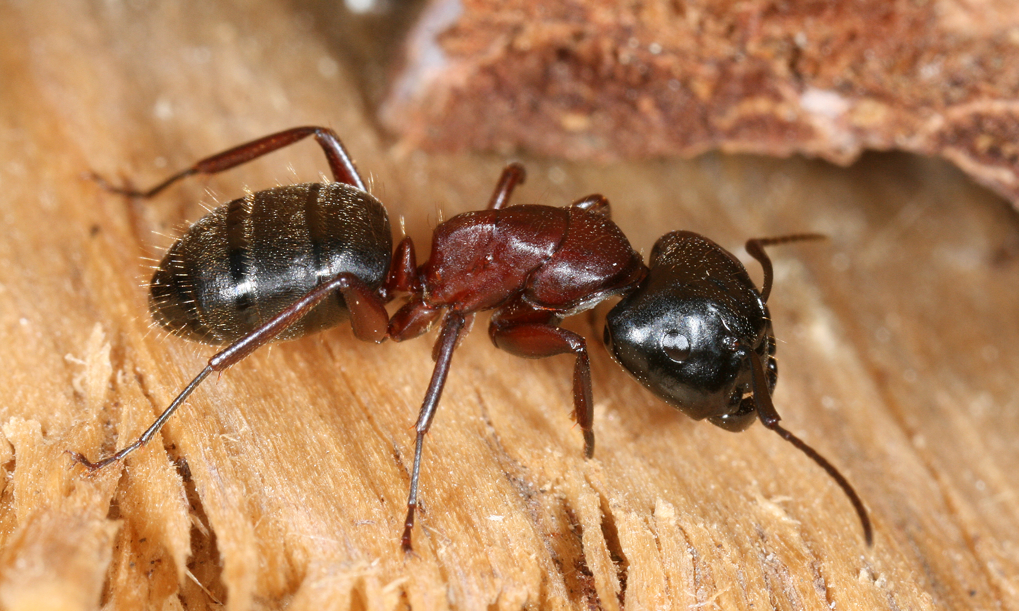 Description: This image shows a Carpenter ant (Camponotus ligniperda).Carpenter ants are large ants (¼ in–1 in) indigenous to large parts of the world. They prefer dead, damp wood in which to build nests. Sometimes carpenter ants will hollow out sections of trees.